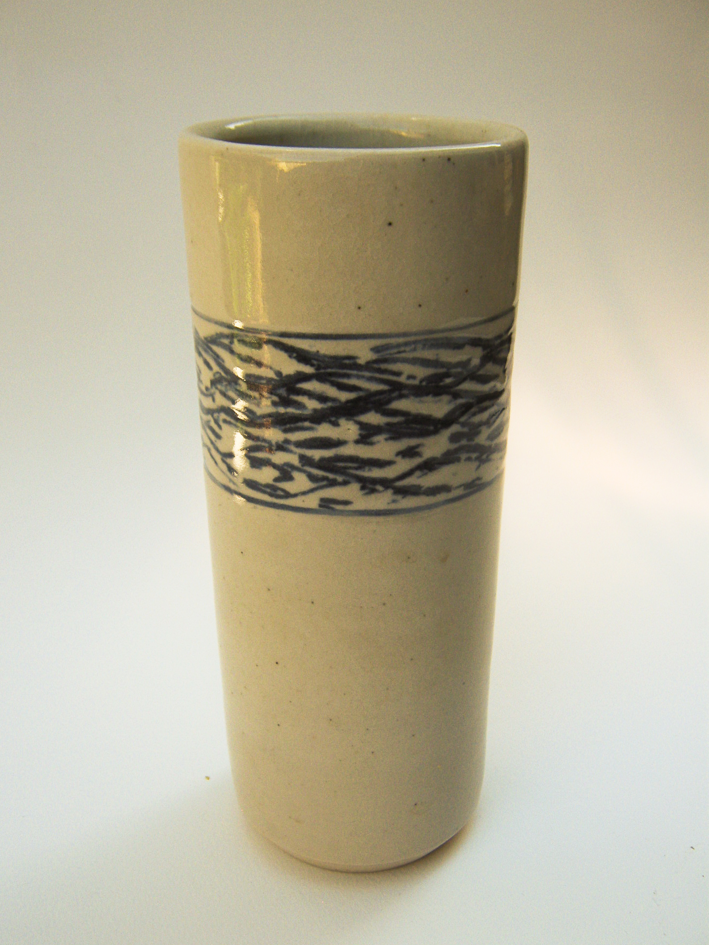 White glazed cylinder by Ian Sprague; photographed in a private collection at Elwood Victoria